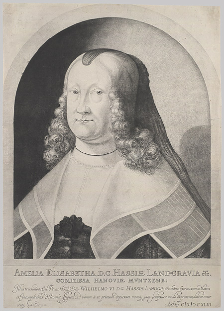 Portrait of Amelie Elisabeth von Hessen. First known mezzotint print. (Metropolitan Museum of Art)